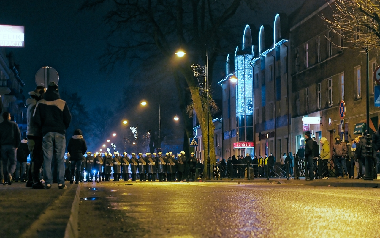 Ełk - brawl on New Year's Day at the centre of the town